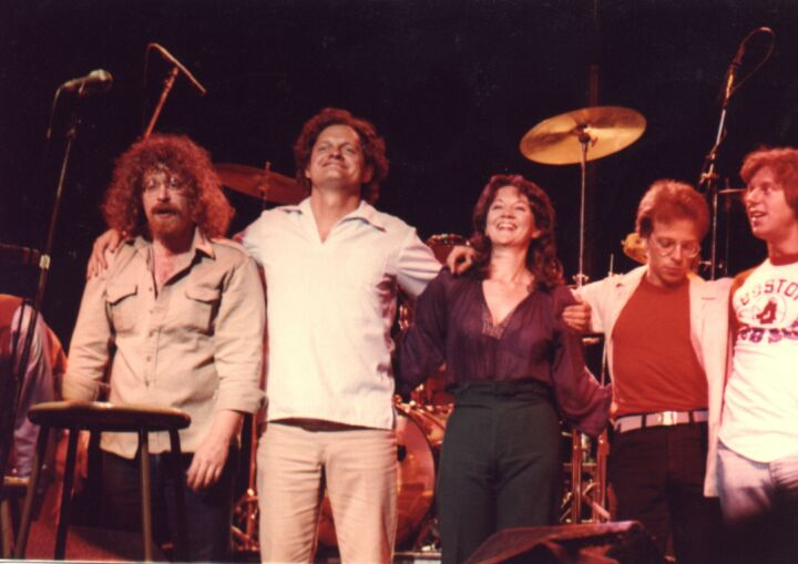 Harry Chapin at curtain call in the 1970s. Pictured: L to R Big John Wallace, Harry Chapin, Yvonne Cable...